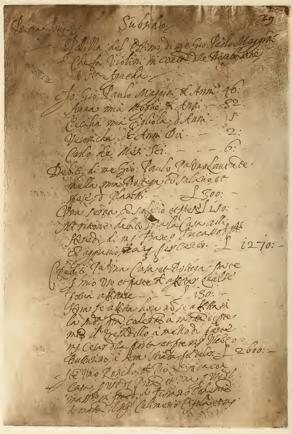 One page of Maggini's Polizza d'Estimo.